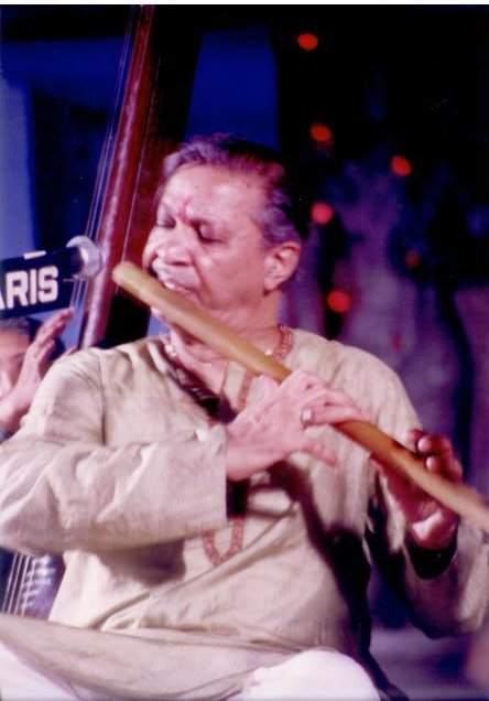 Indian flautist Hariprasad Chaurasia at Kollam, Kerala